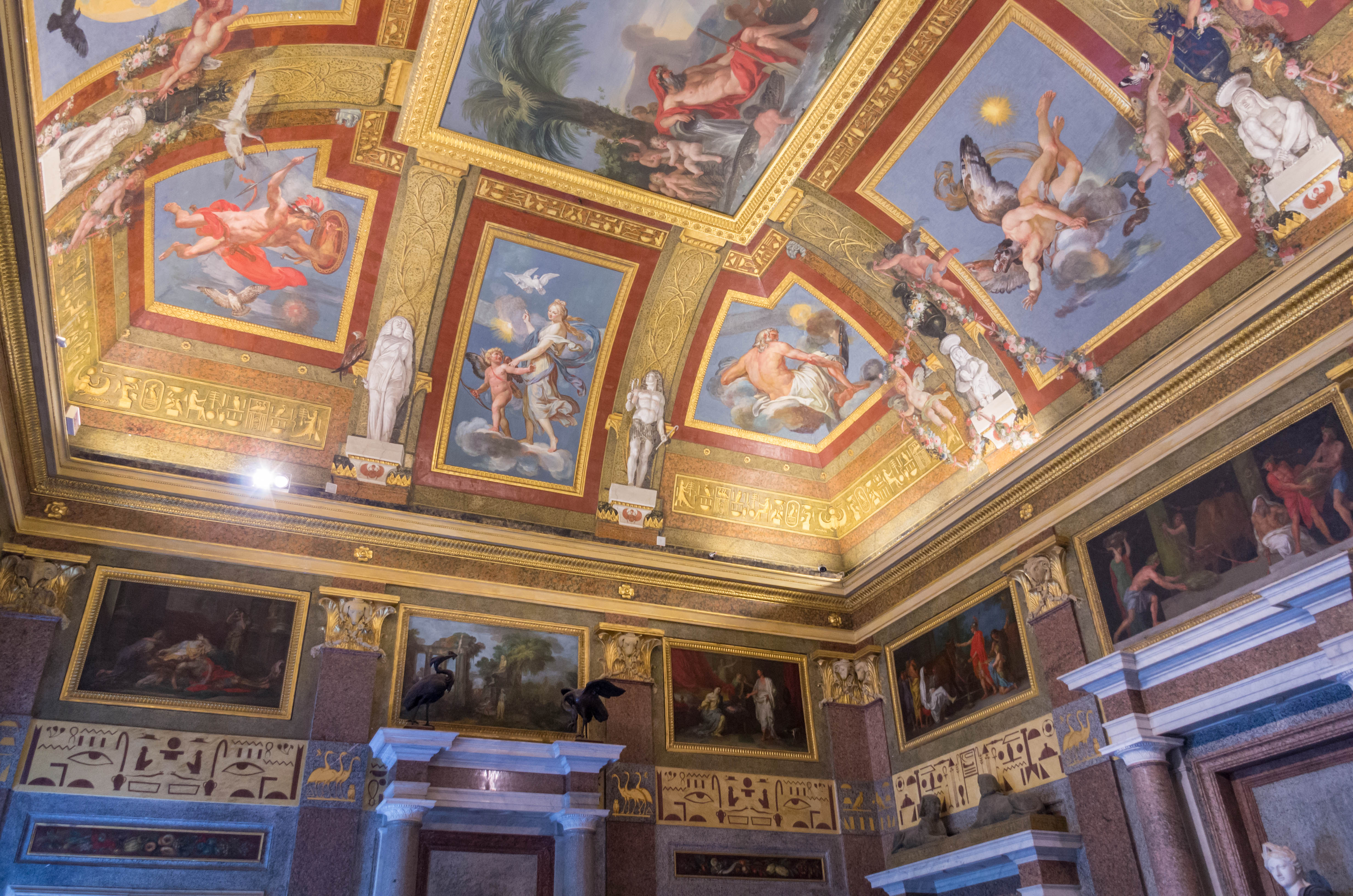 Galleria Borghese (Rome)